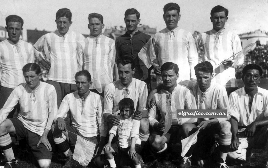 Team of Argentina v Paraguay: (up): Ángel Médici, Ludivico Bidoglio, Luis Vaccaro, Américo Tesoriere, Ramón Muttis, Mario Fortunato. (down): Domingo Tarascone, Martín Sánchez, Juan C. Irurieta, Manuel Seoane, Juan Bianchi, Hanai (masseur).